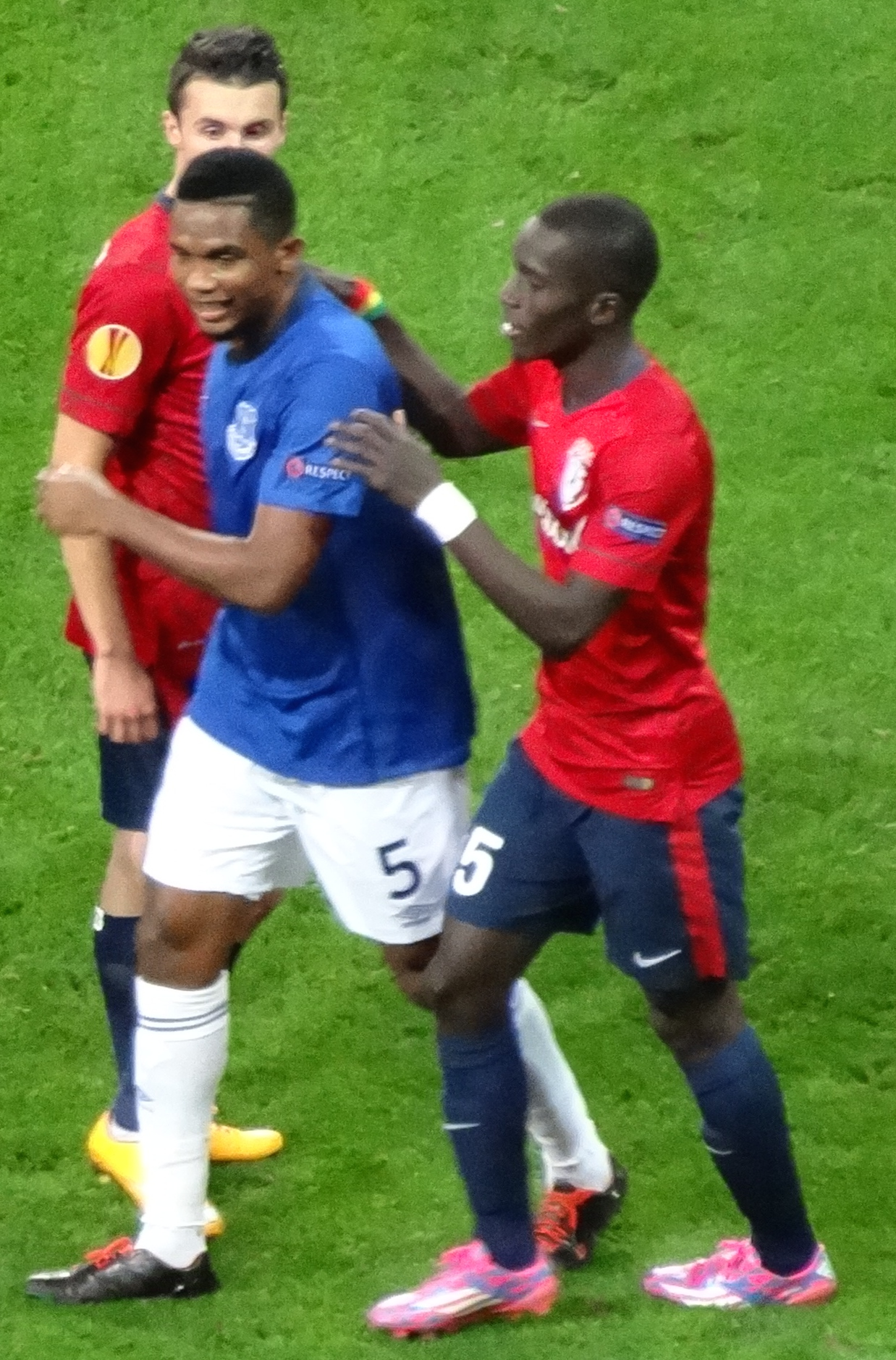 Corchia, Eto'o, Gueye